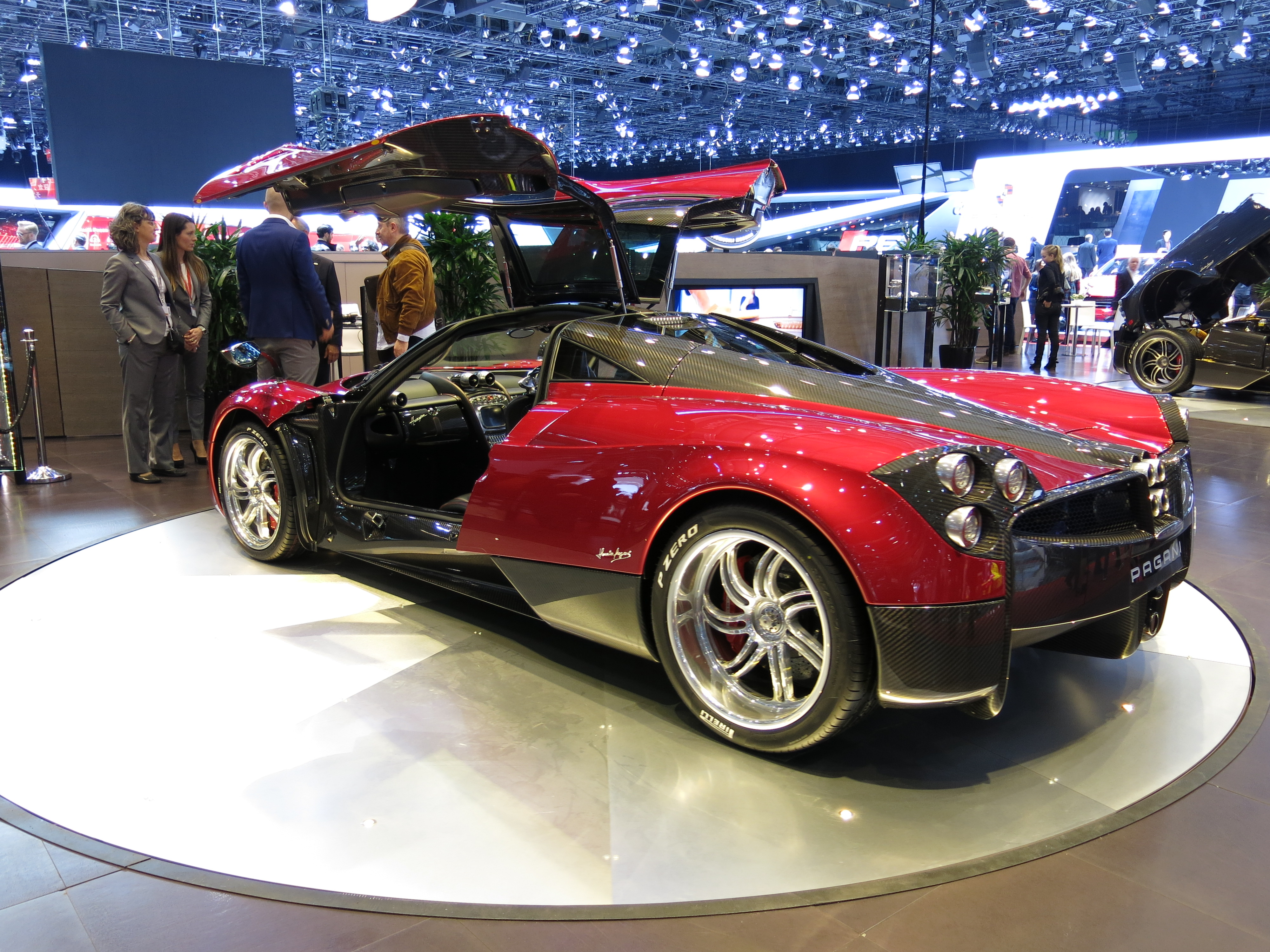 Geneva Motor Show 2015 (photo taken on the first press day)